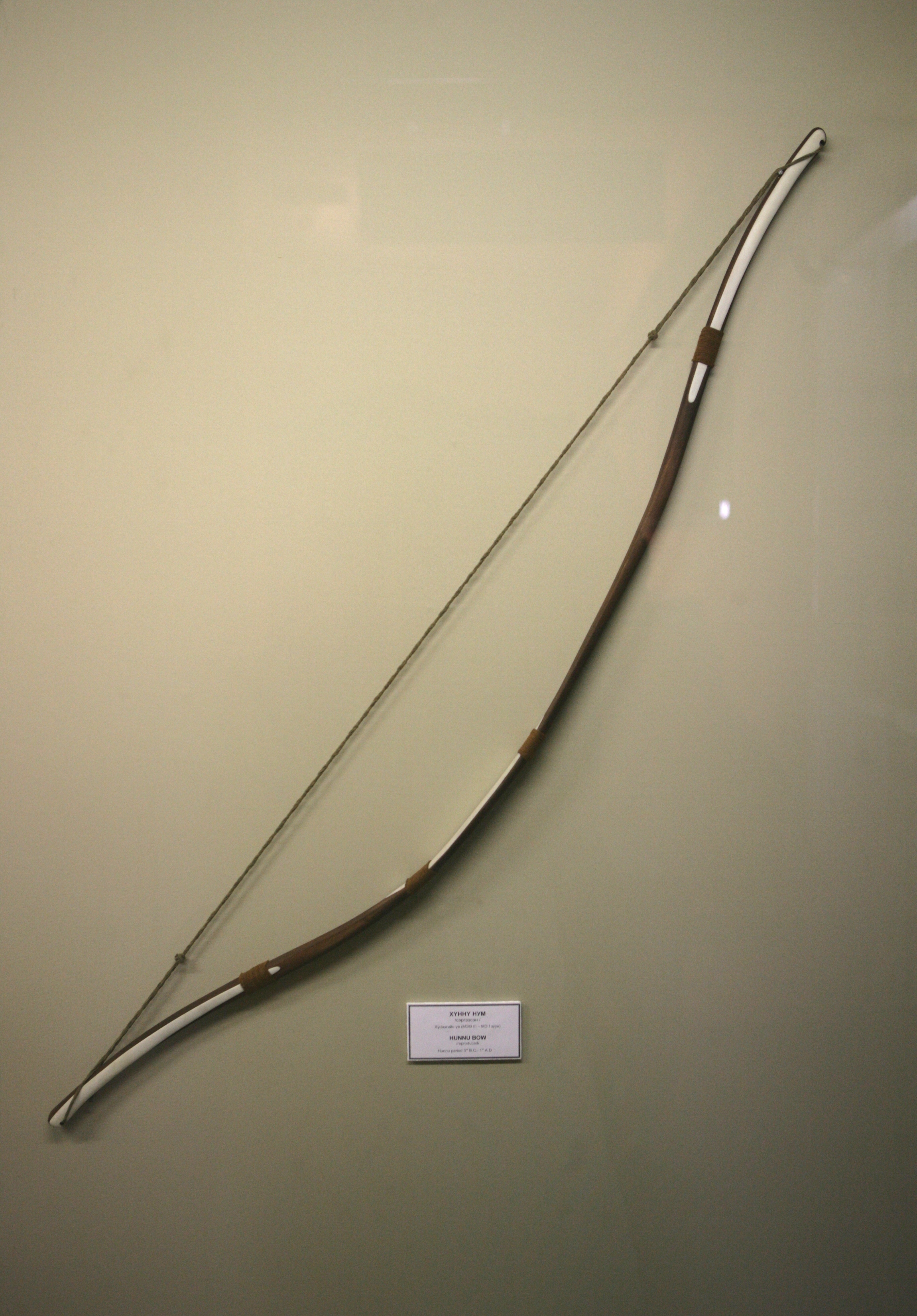 A reproduction Hunnu bow hangs on display inside the National Museum of Mongolian History in Ulaanbaatar, Mongolia. The museum preserves the Mongolian cultural heritage.